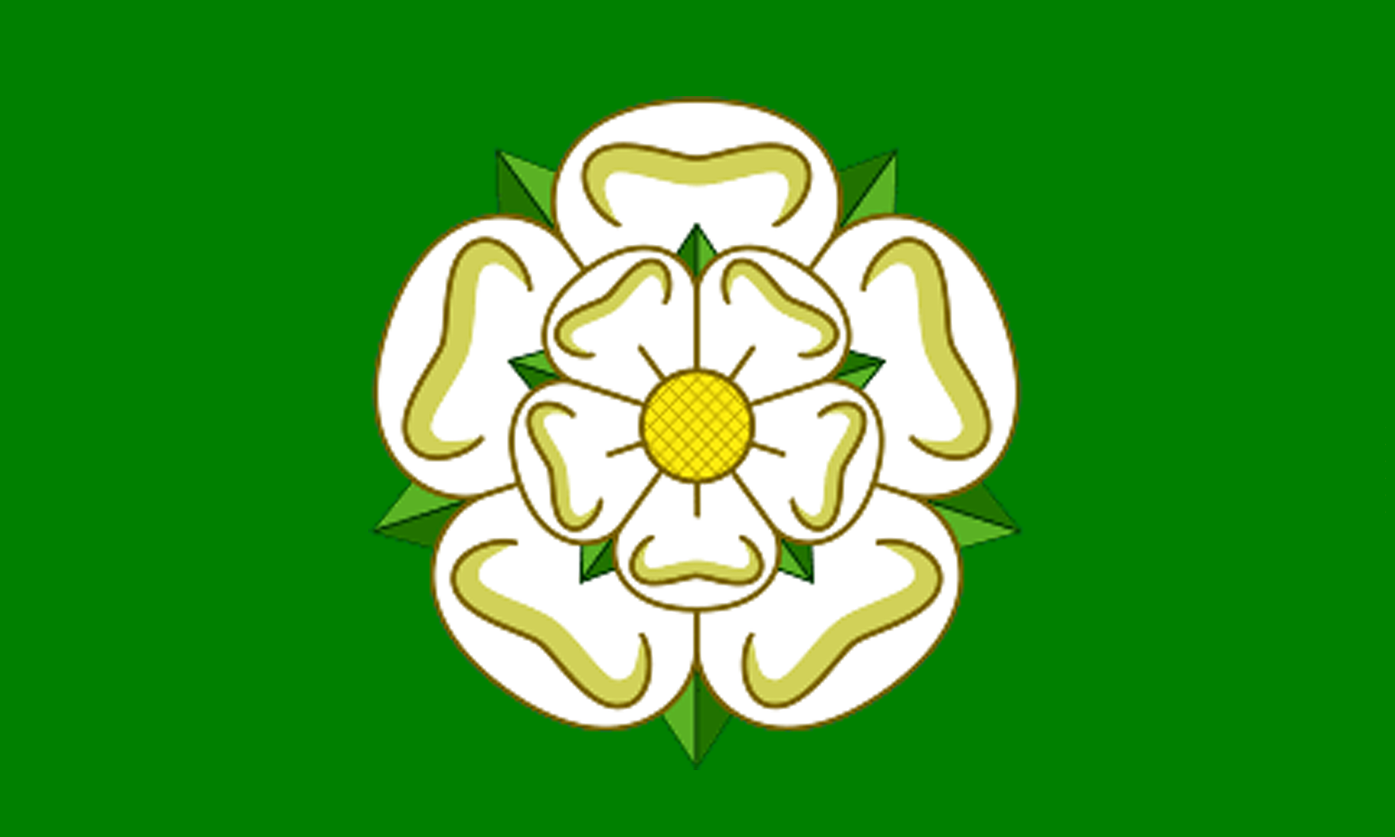 Unofficial County Flag of North Yorkshire - the White Rose of York on a green ground, representing the green and rural nature of the county. Note This flag should not be used to represent North Yorkshire in articles in any official manner.